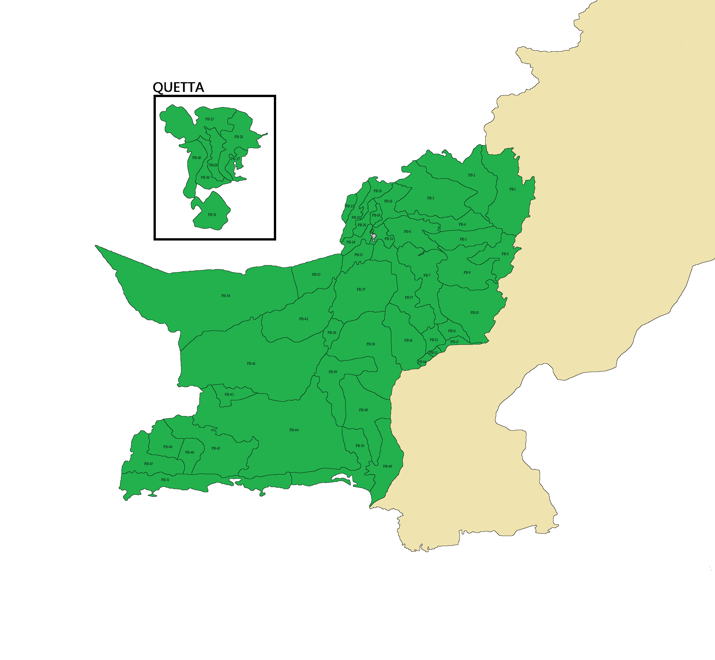 Map of Balochistan showing Assembly Constituencies after 2018 Delimitation